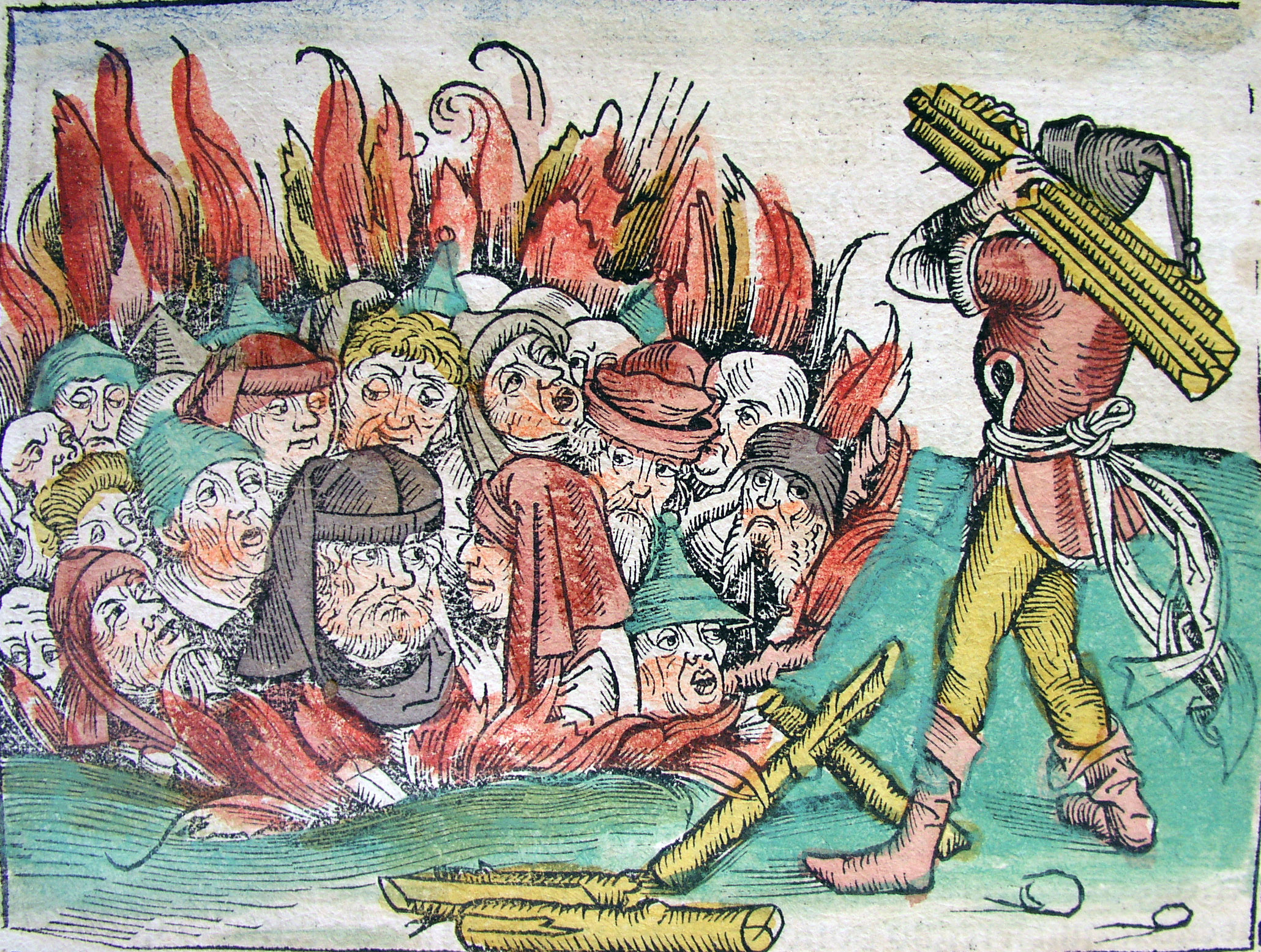 Jews burned alive for the alleged host desecration in Deggendorf, Bavaria, in 1338, and in Sternberg, Mecklenburg, 1492; a woodcut from the Nuremberg Chronicle (1493)